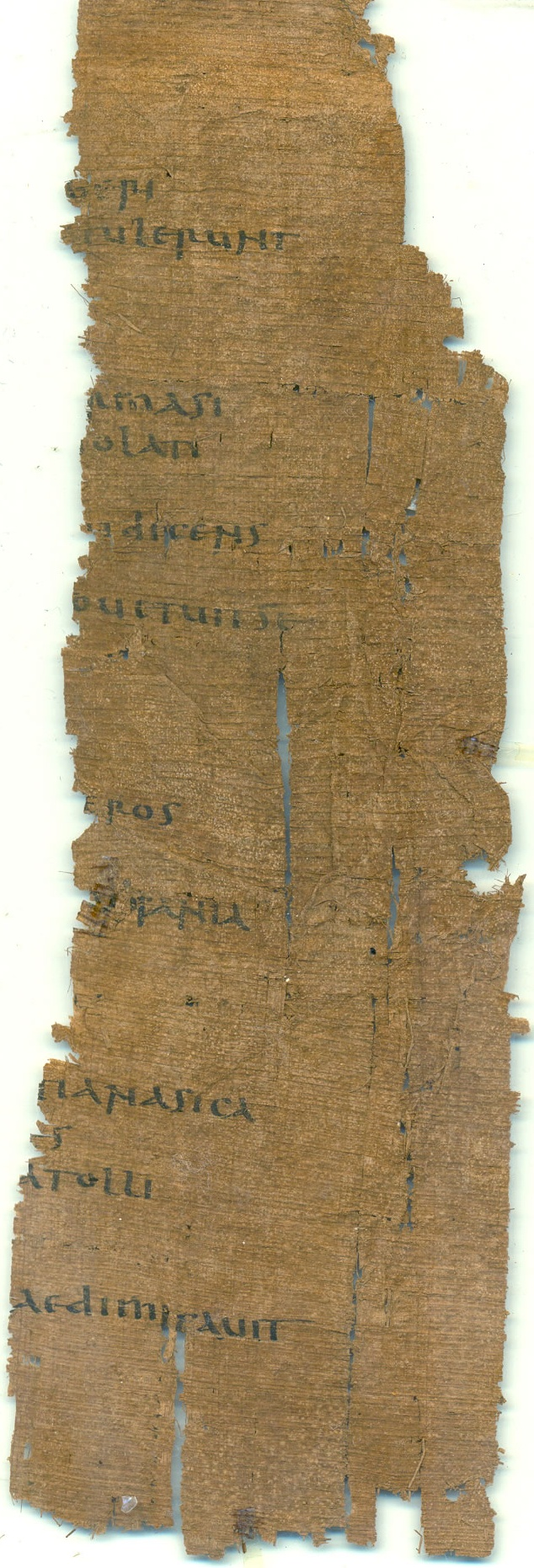 Papyrus Oxyrhynchus 668, Cairo Egyptian Museum, PSI XII 1291, Epitome of Livy XLVII–XLVIII […]geri […]etulerunt […] […] […]r Masi […]iolati […] […]it dicens […] […]to vetuit se […] […] […] […] […]eros […] […]spania […] […]s […] […]tia Nasica […]es […]a tolli […] […] […]ae dimicavit